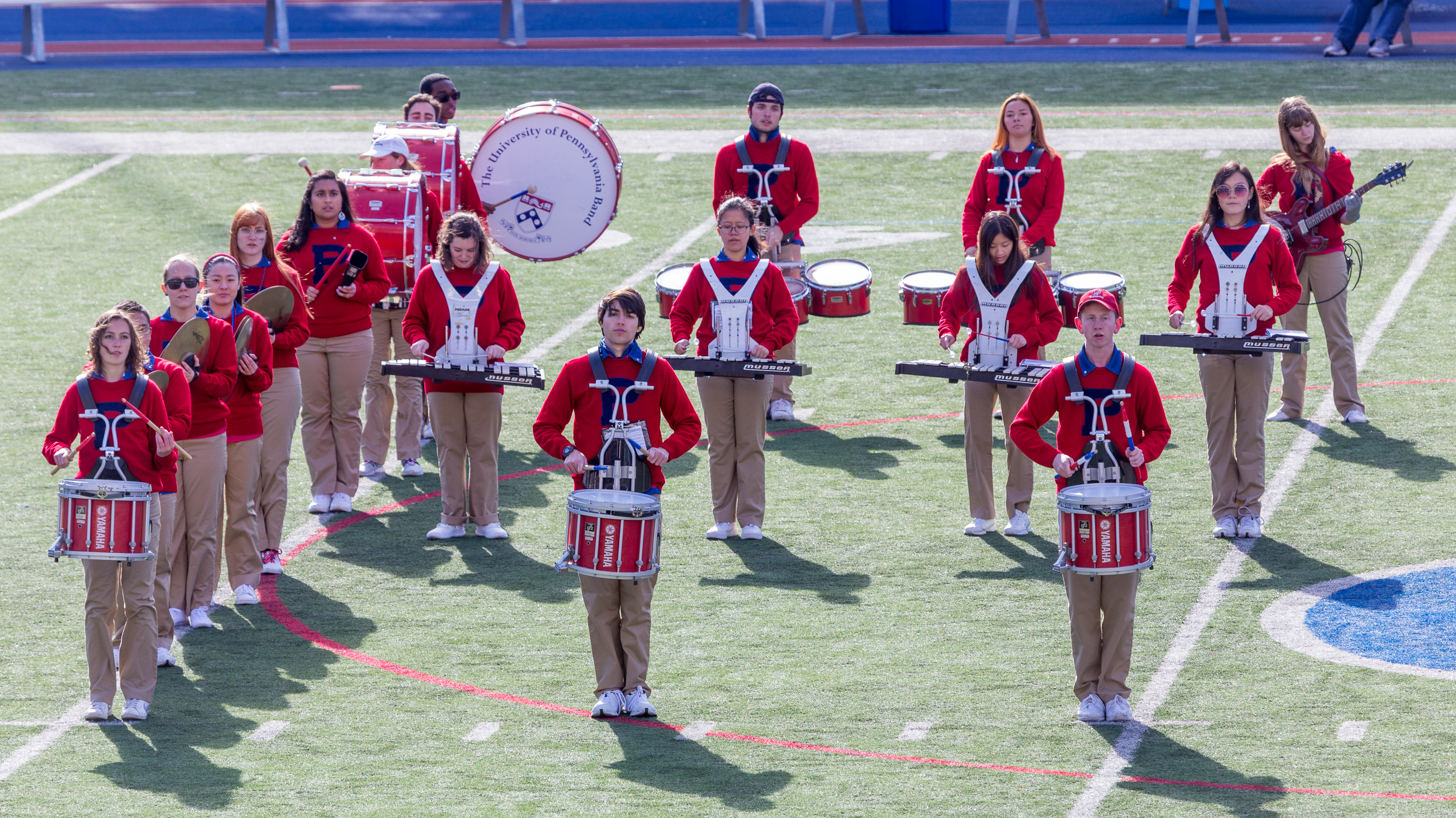 UPenn vs. Cornell football game, November 9, 2019. Penn won, 21-20.